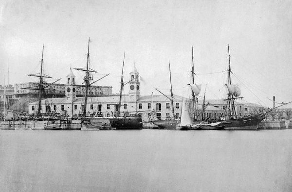 Photograph of British armoured composite gunboat HMS Vixen (left) and the barque Nightwatch (right) in Bermuda Dockyard